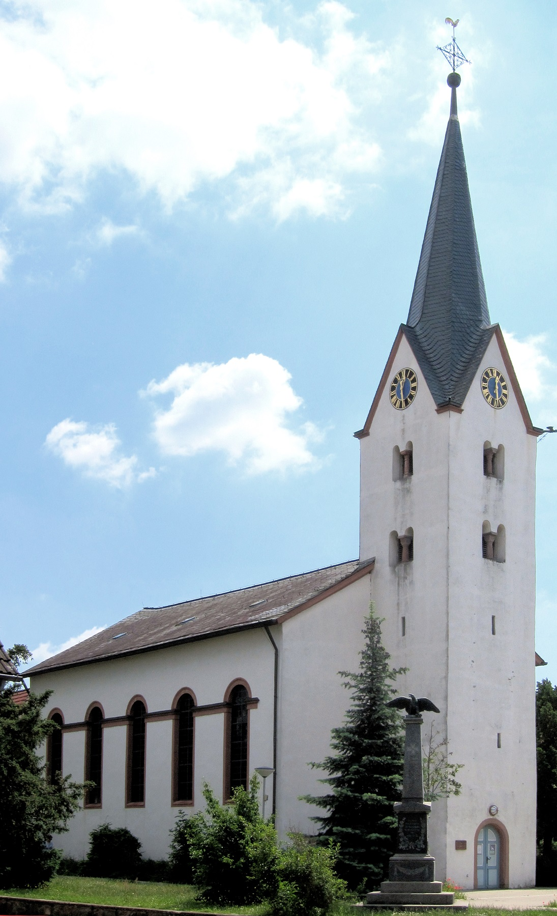 Protestant Church in Weiterstadt-Gräfenhausen, Germany